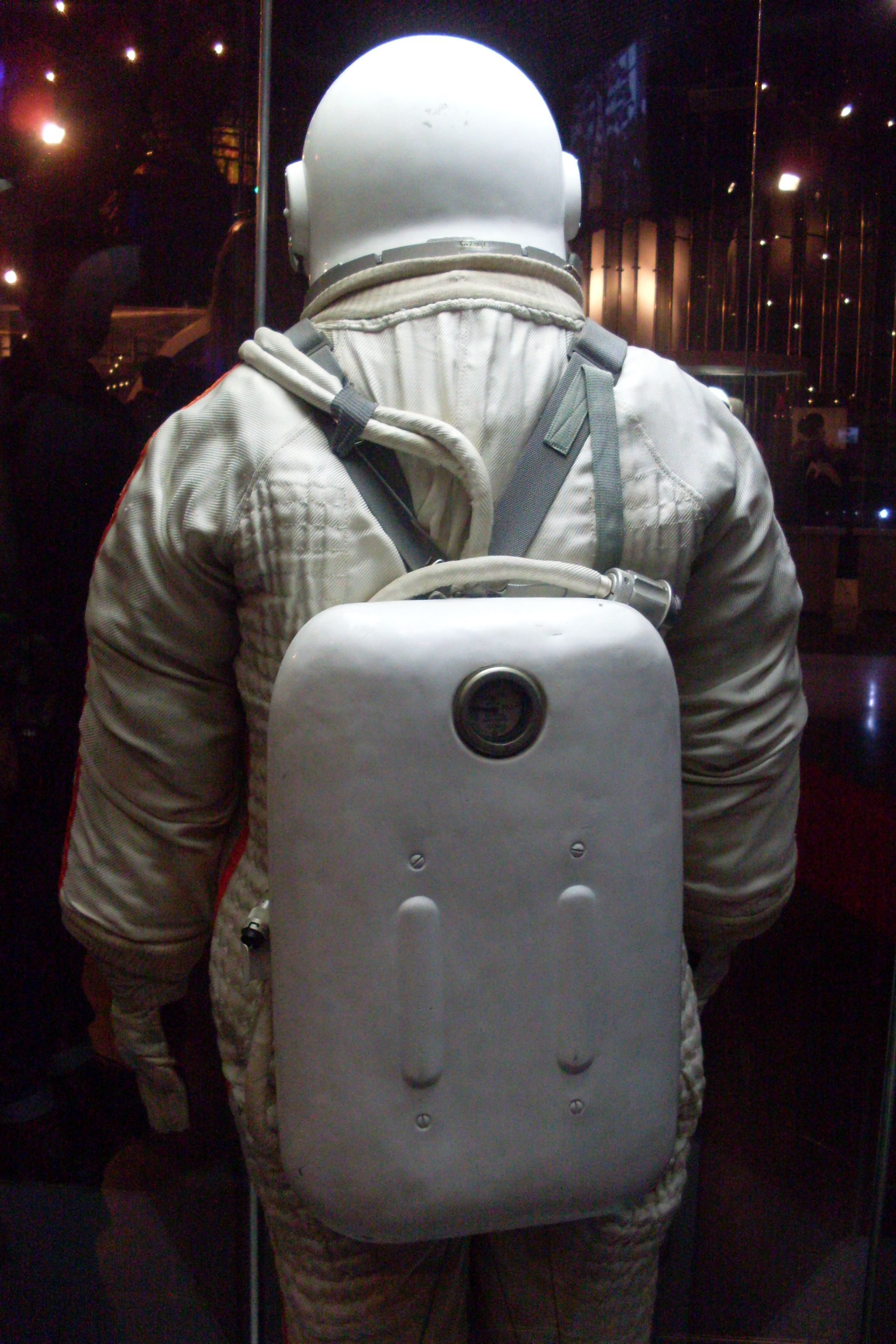 Berkut spacesuit at Memorial Museum of Astronautics (Moscow).